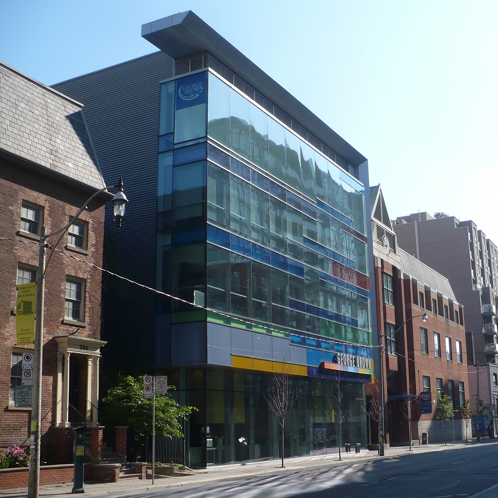 George Brown College, Chef School on Adelaide Street East, Toronto